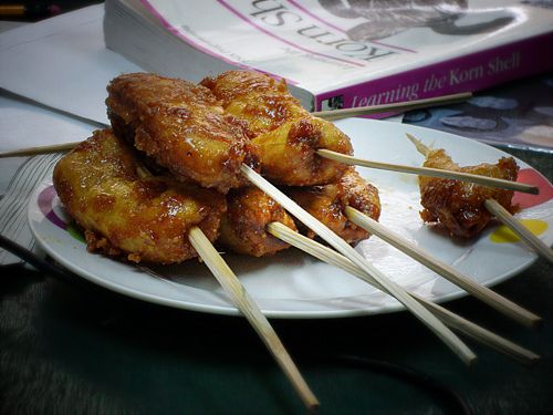 The ultimate snack